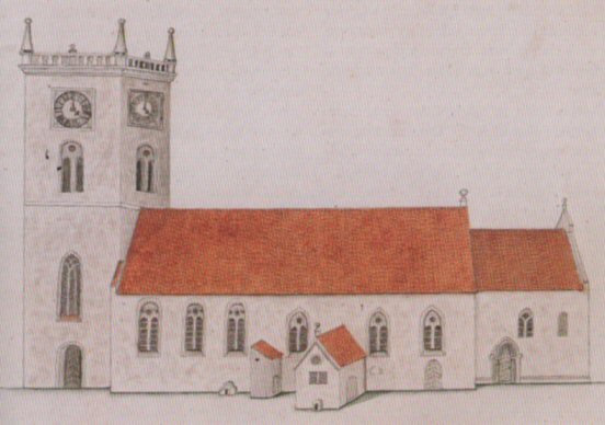 Our Lady's church, Trondheim, Norway, c 1770. Drawing by G. Schoning.